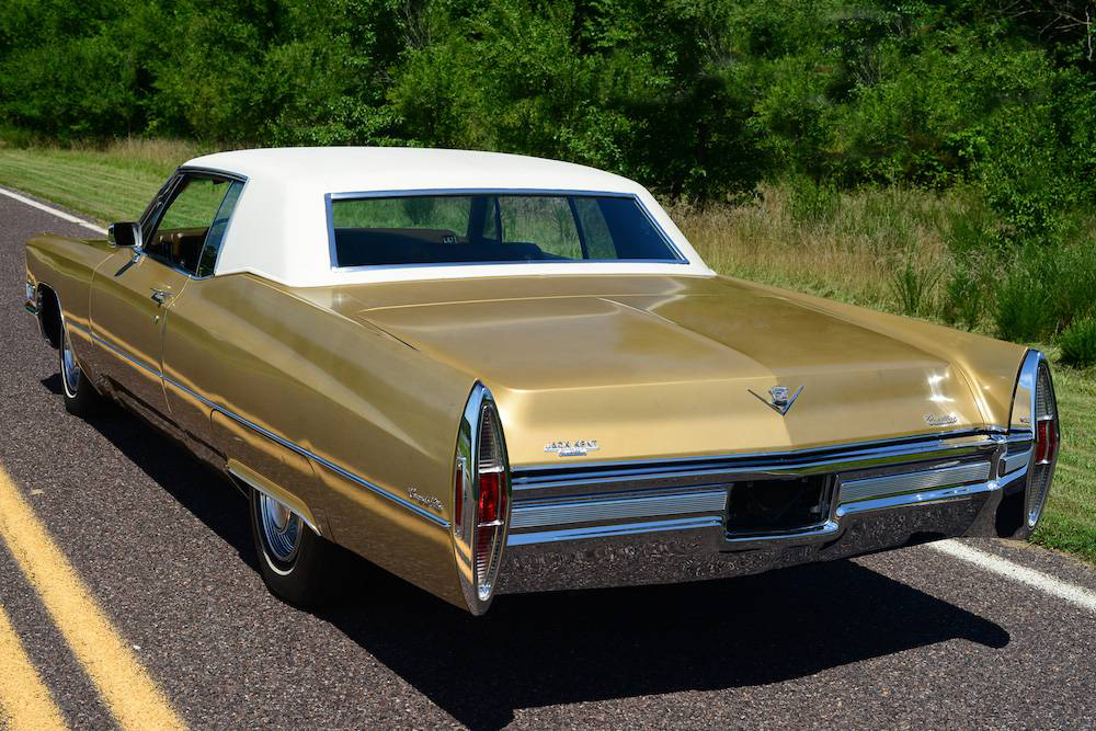 This is a picture of a vehicle (name of it is on the file name).